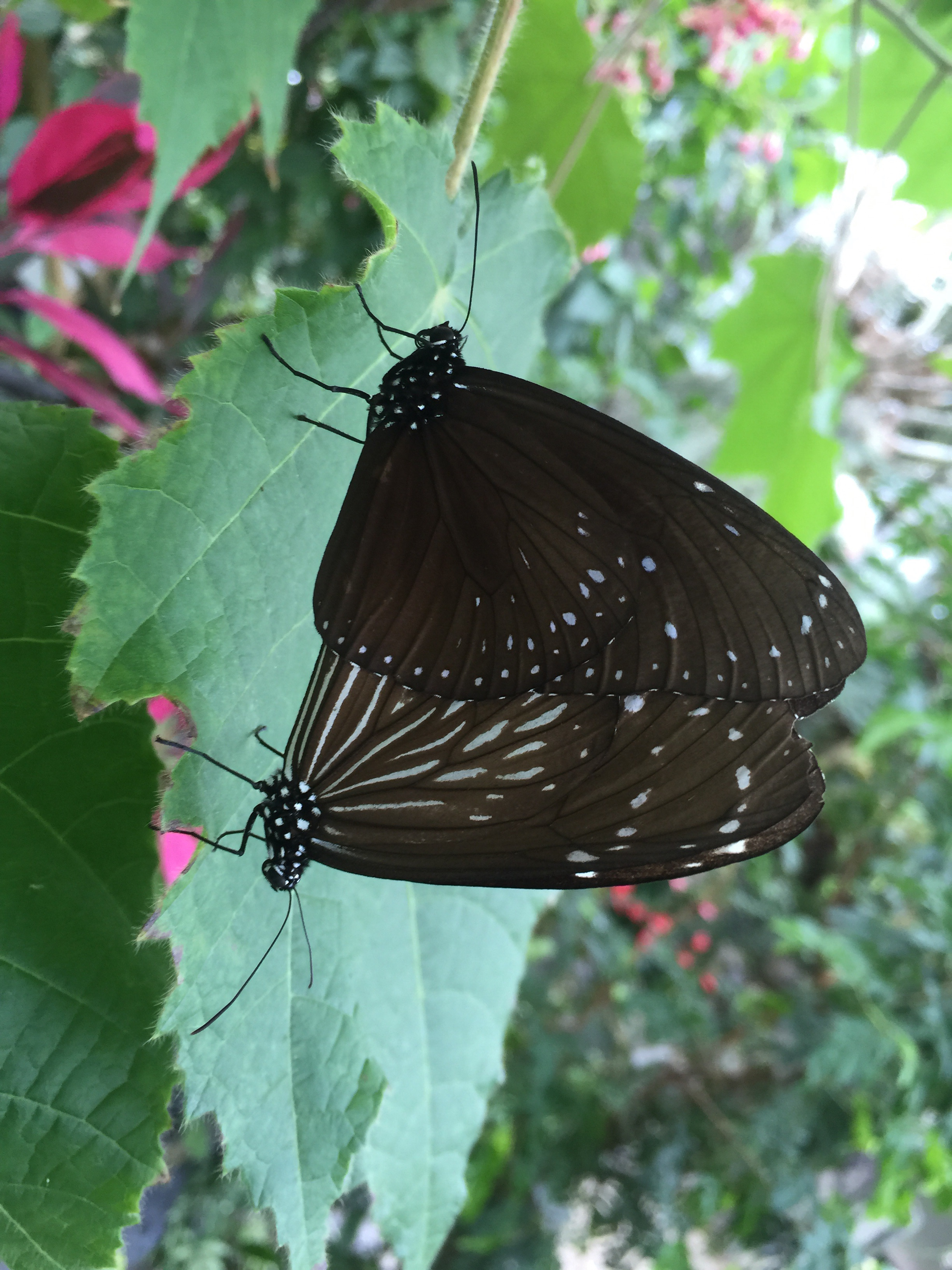 Striped blue crow